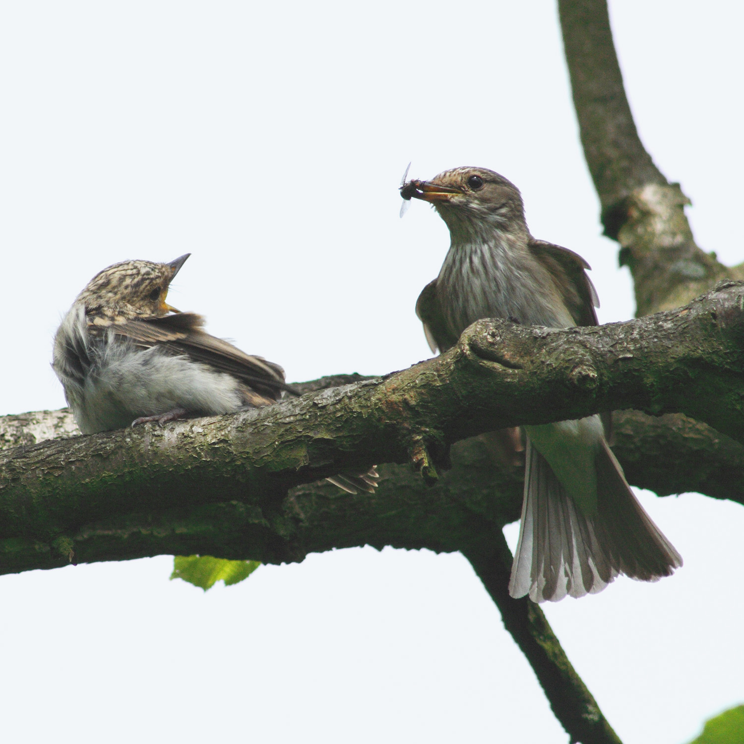 Spotted Flycatcher (Muscicapa striata), on the left a juvenile in Otterndorf, northern Lower Saxony, Germany.